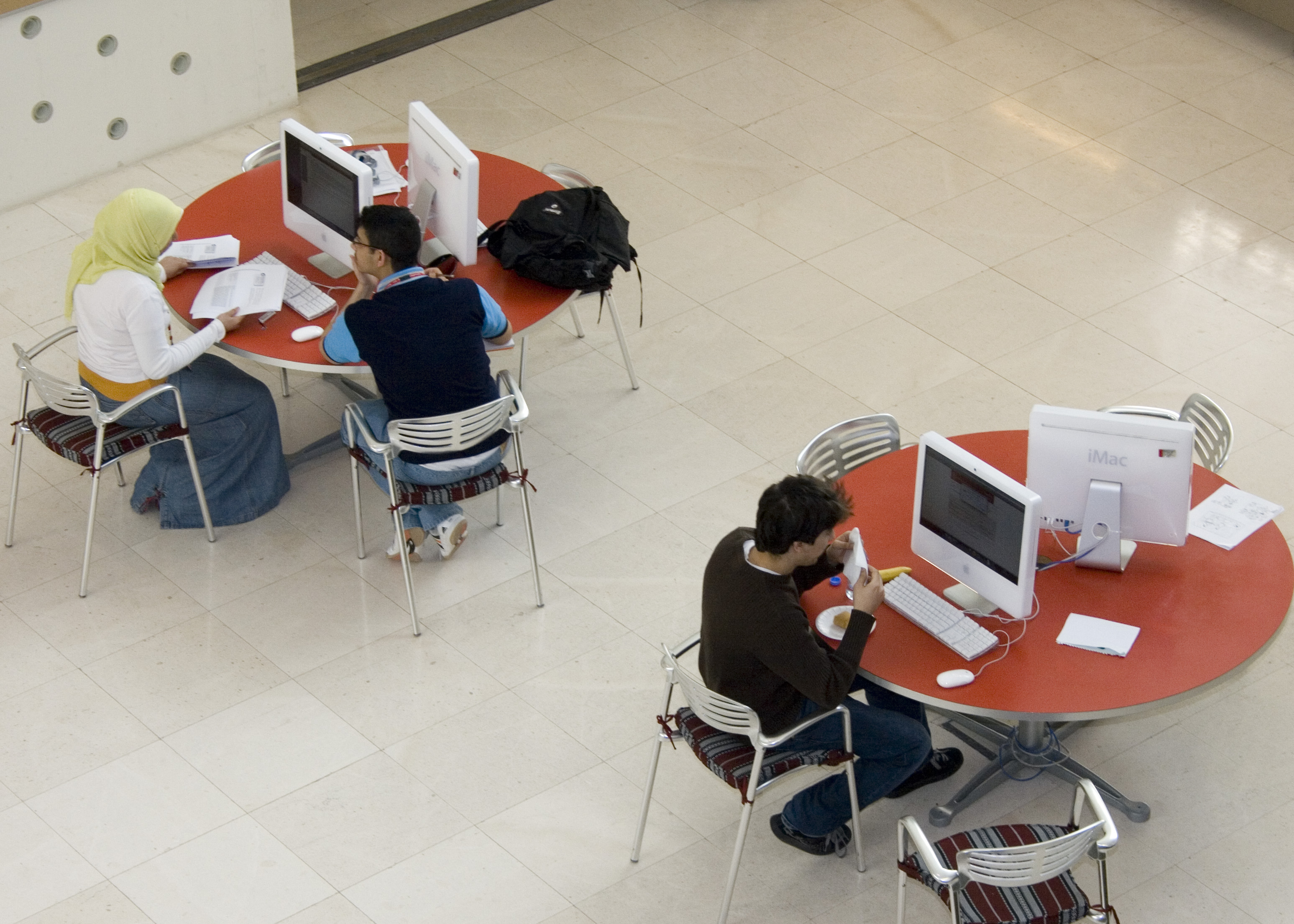 Interior of Cornell University campus in Qatar